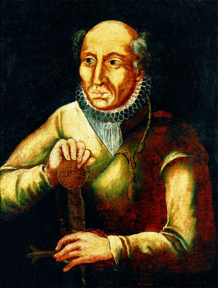 Paracelsus (early modern painting based on the 1540 portrait by Hirschvogel; the inscription Azoth on the sword pommel became conventional based on the "Rosicrucian" portrait of 1567)